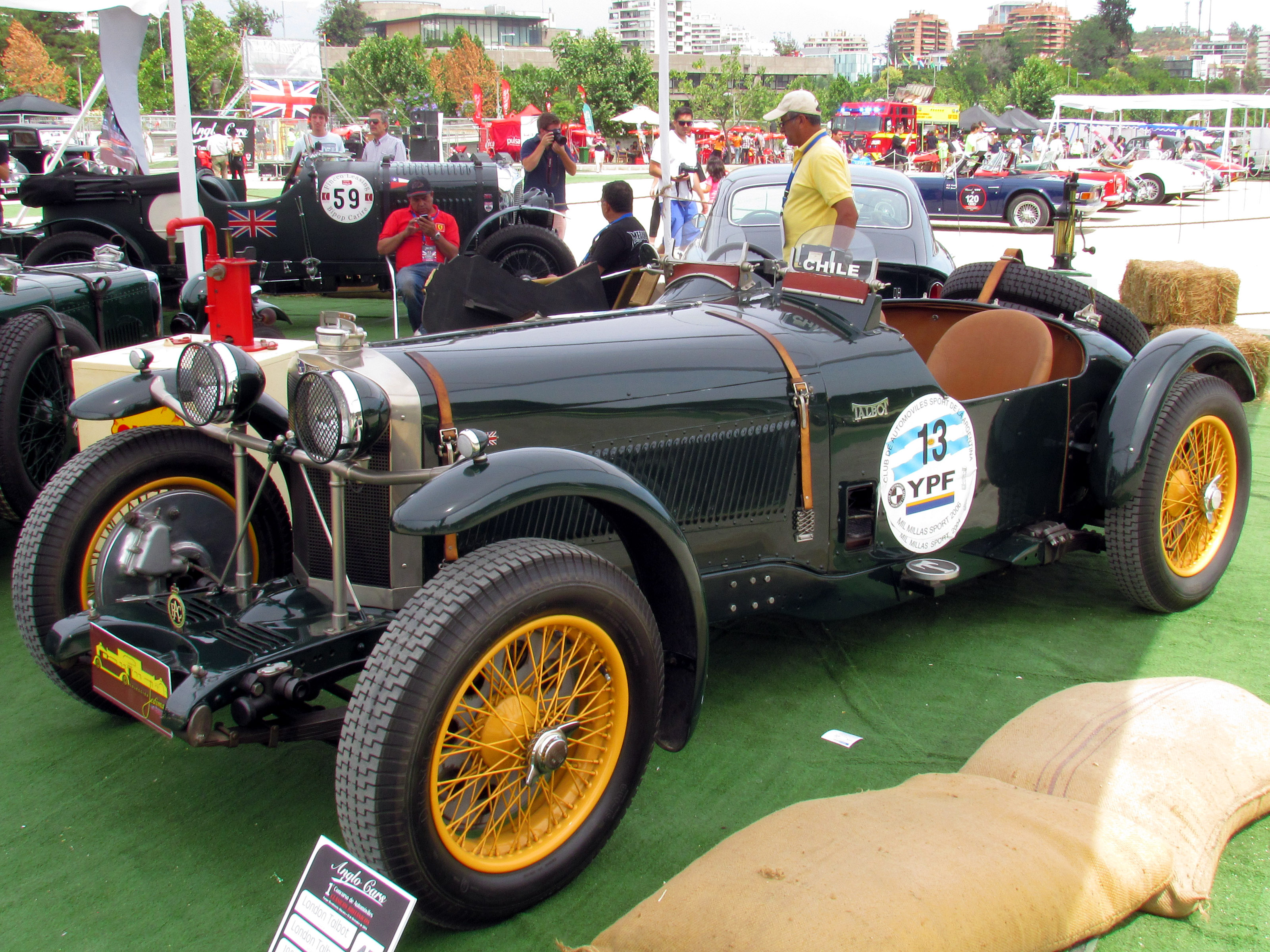 Talbot 105 1934